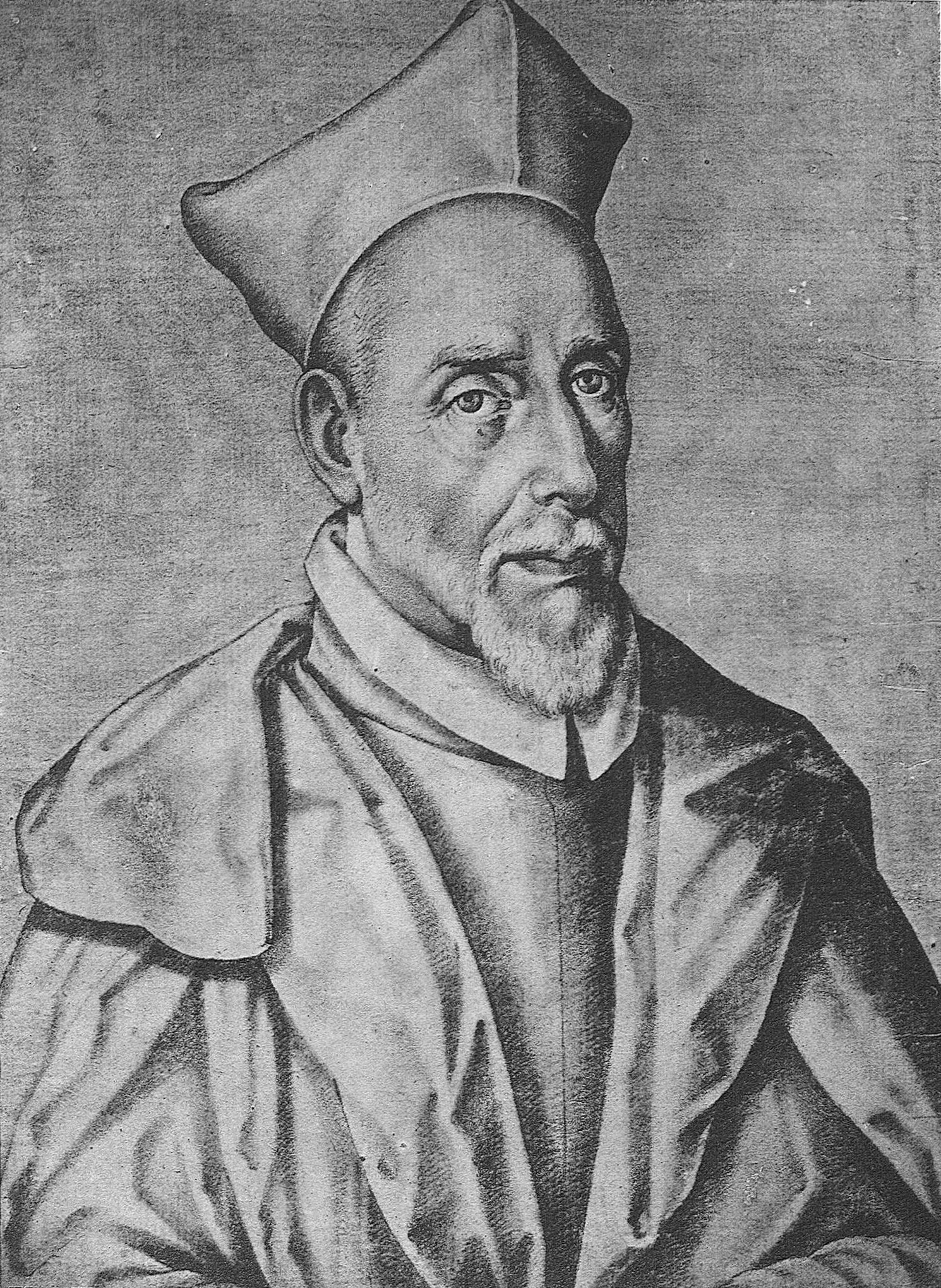 Francisco Guerrero (1528-1599), Spanish composer Retrato tomado de Francisco Pacheco, (1564-1644) El libro de descripción de verdaderos retratos, ilustres y memorables varones, [Sevilla, s.n., s.a.]- Real Academia de la Historia (Madrid). Signatura: 1/736